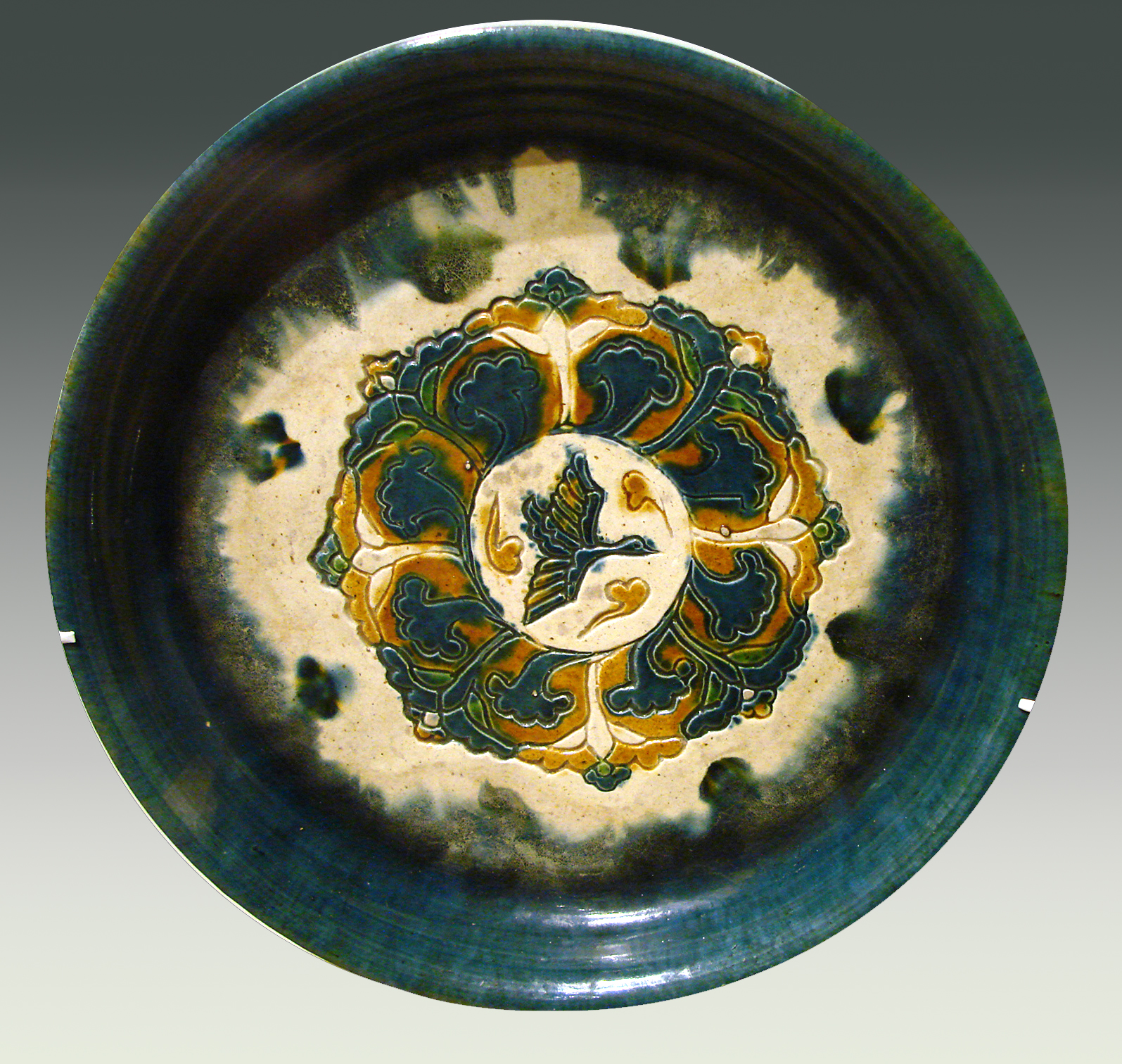 Offering dish, northern China, 8th century, glazed earthenware with "three colors" slip and incised decoration. Musée Guimet, Paris. MA 4052.